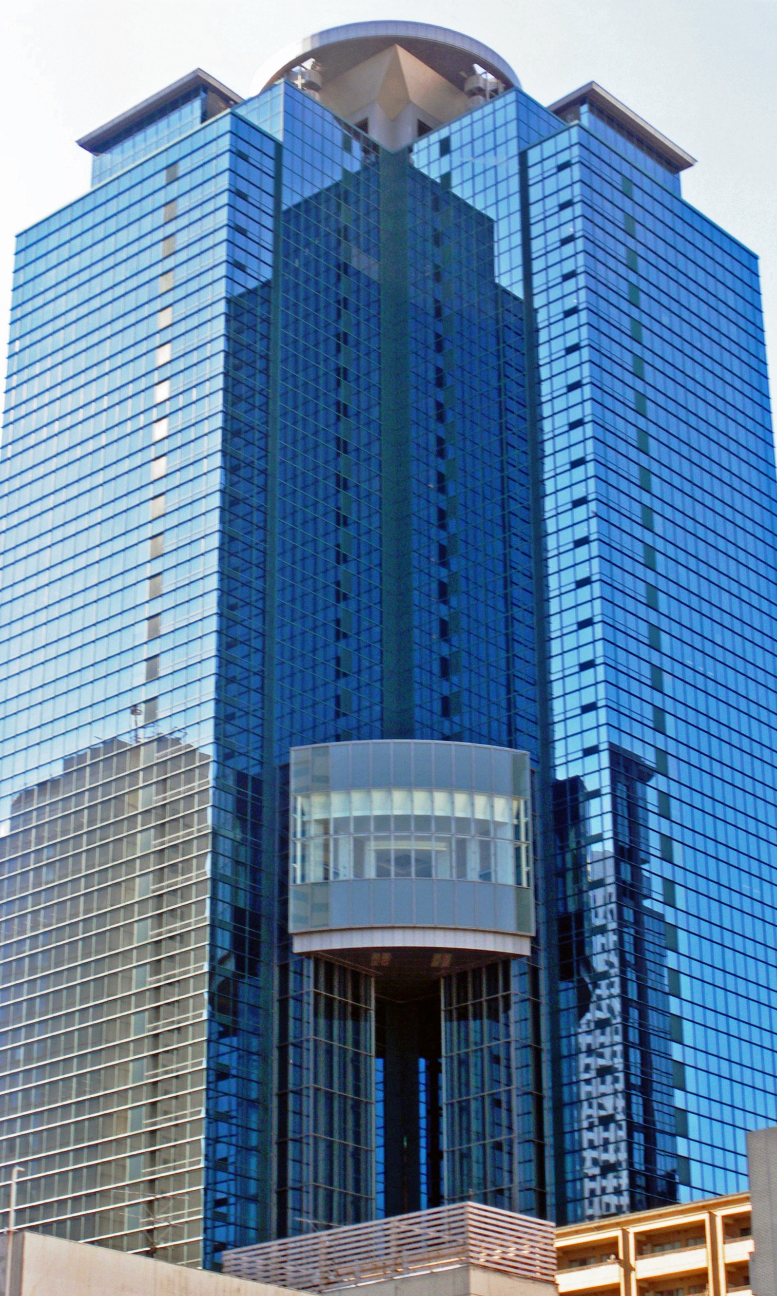 A photo of Sumitomo Fudosan Shinjuku Oak Tower,one of the skyscrapers in Shinjuku,Tokyo,Japan.